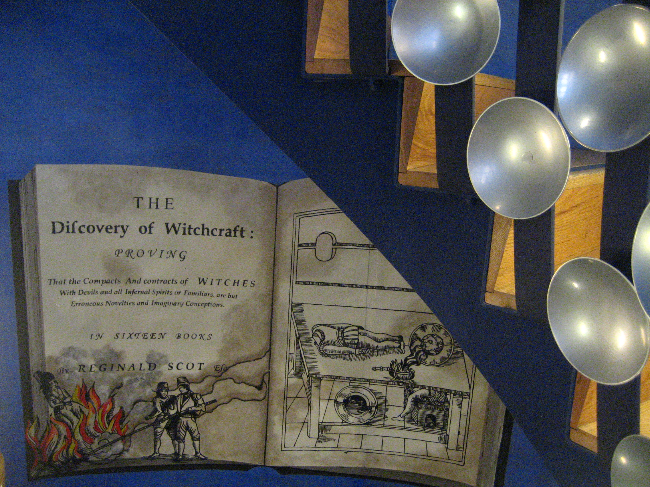 This photo of The Magic Circle staircase was taken on October 24, 2008. It shows The Discoverie of Witchcraft (1584), by Reginald Scot.